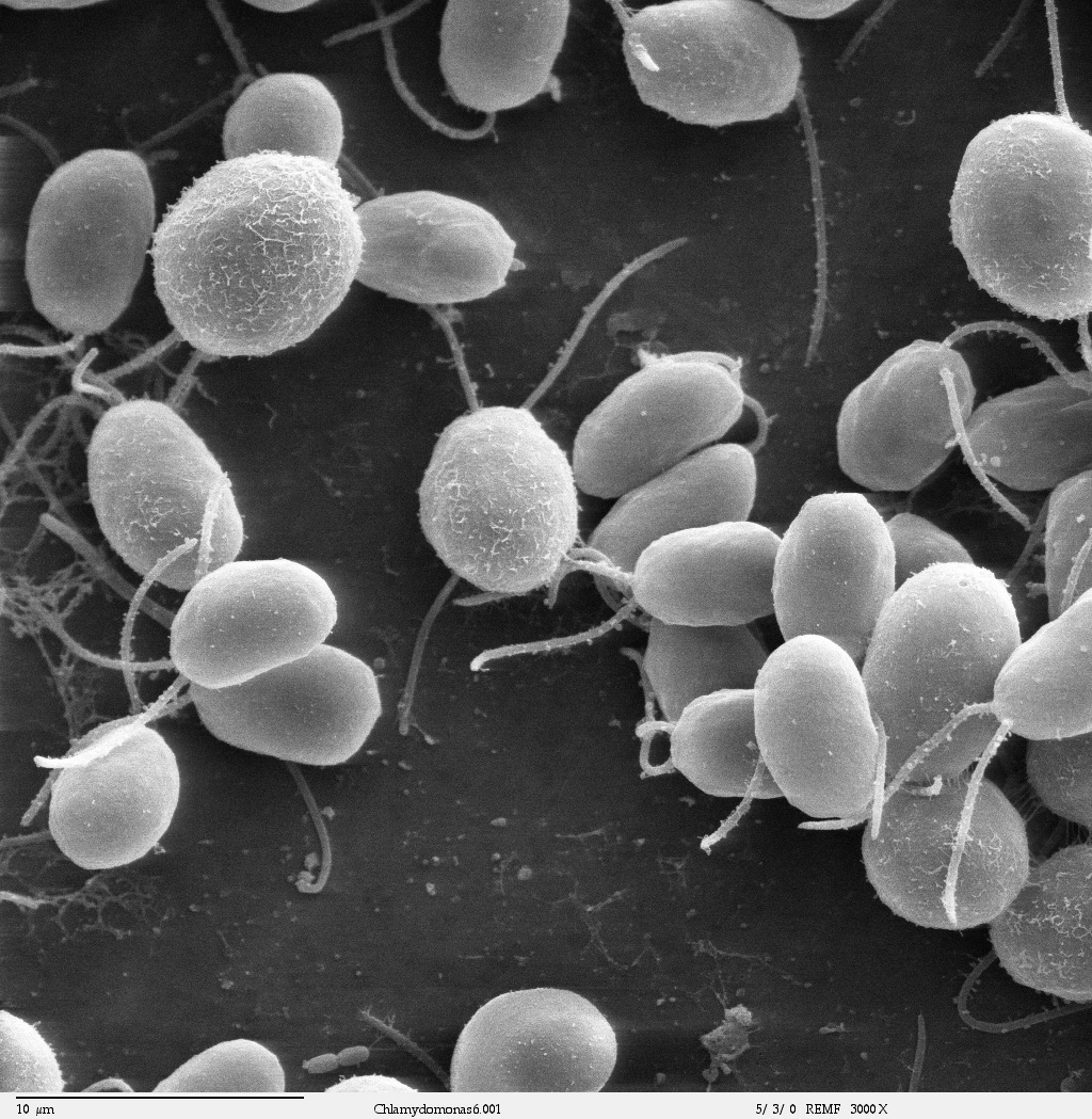 Scanning electron microscope image, showing an example of green algae (Chlorophyta). Chlamydomanas reinhardtii is a unicellular flagellate used as a model system in molecular genetics work and flagellar motility studies. Smith, E.F and P.A. Lefebvre (1996) "PF16 Encodes a Protein with Armadillo Repeats and Localizes to a Single Microtubule of the Central Apparatus in Chlamydomonas Flagella", J. Cell Biology, 132(3): 359-370